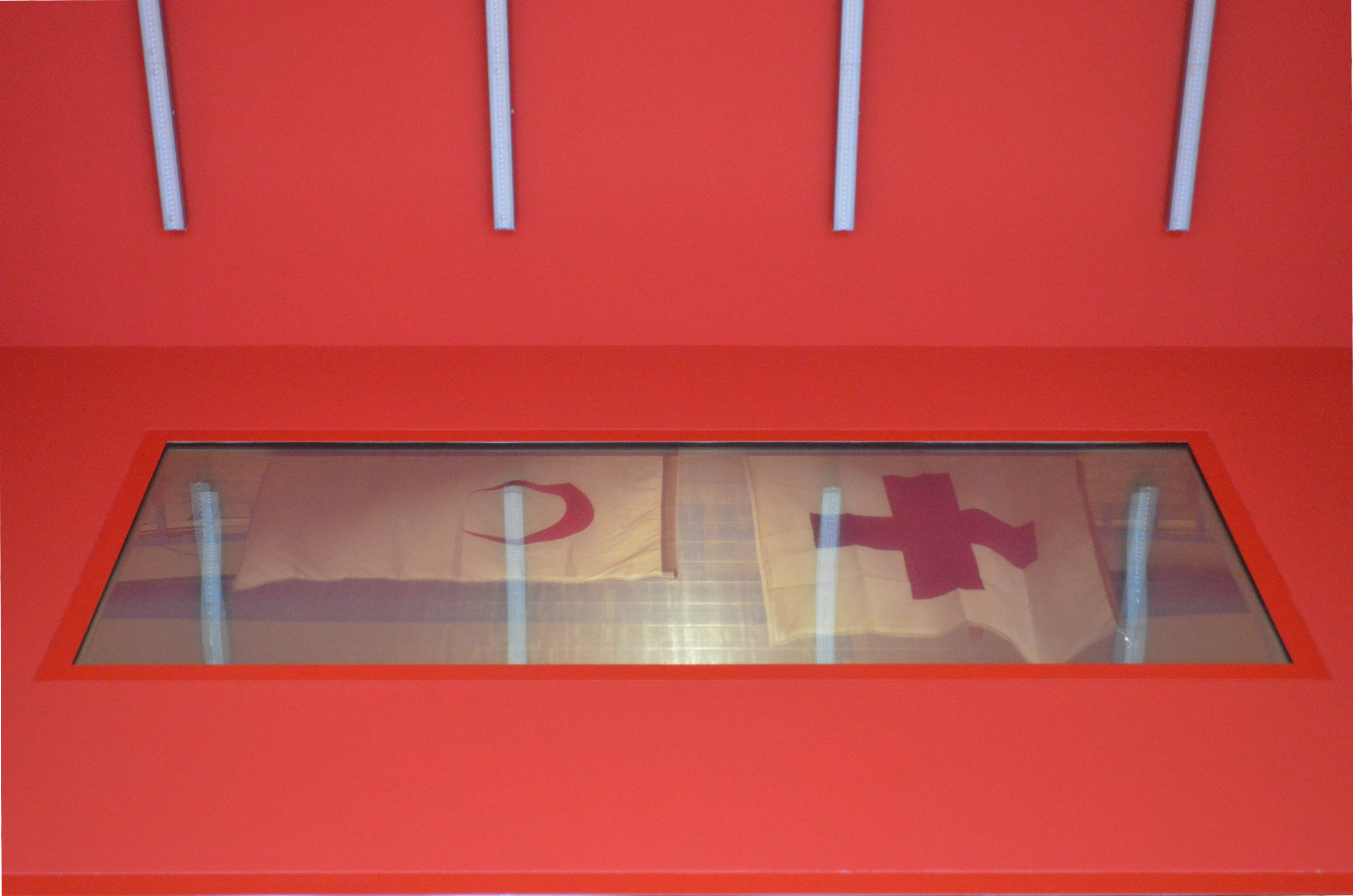 The foyer of the lnternational Committee of the Red Cross' (ICRC/CICR) logistics center in Satigny, Switzerland, which houses also a part of the ICRC archives. - Photo taken and uploaded in the context of the International Archives Week 2020 of Wikimedia Switzerland, Austria and Germany and the Association of Swiss Archivists.